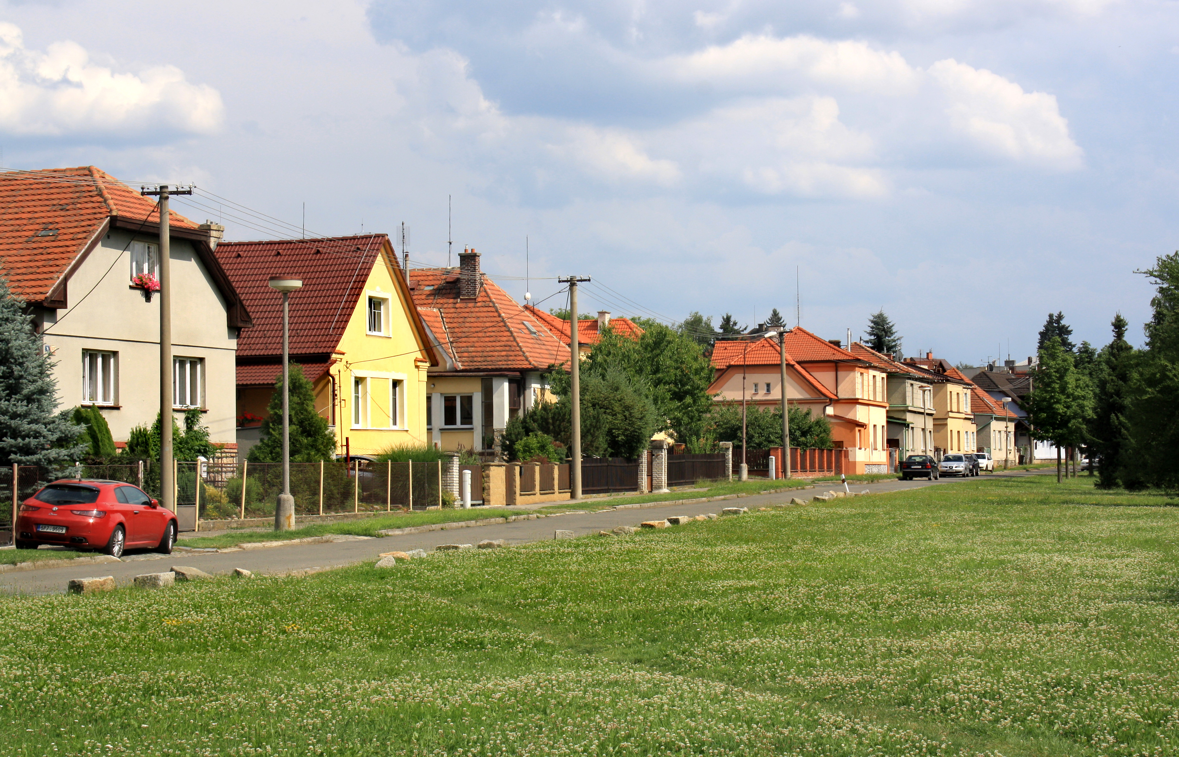 Šťáhlavská street in Plzeňské Předměstí, part of Rokycany, Czech Republic